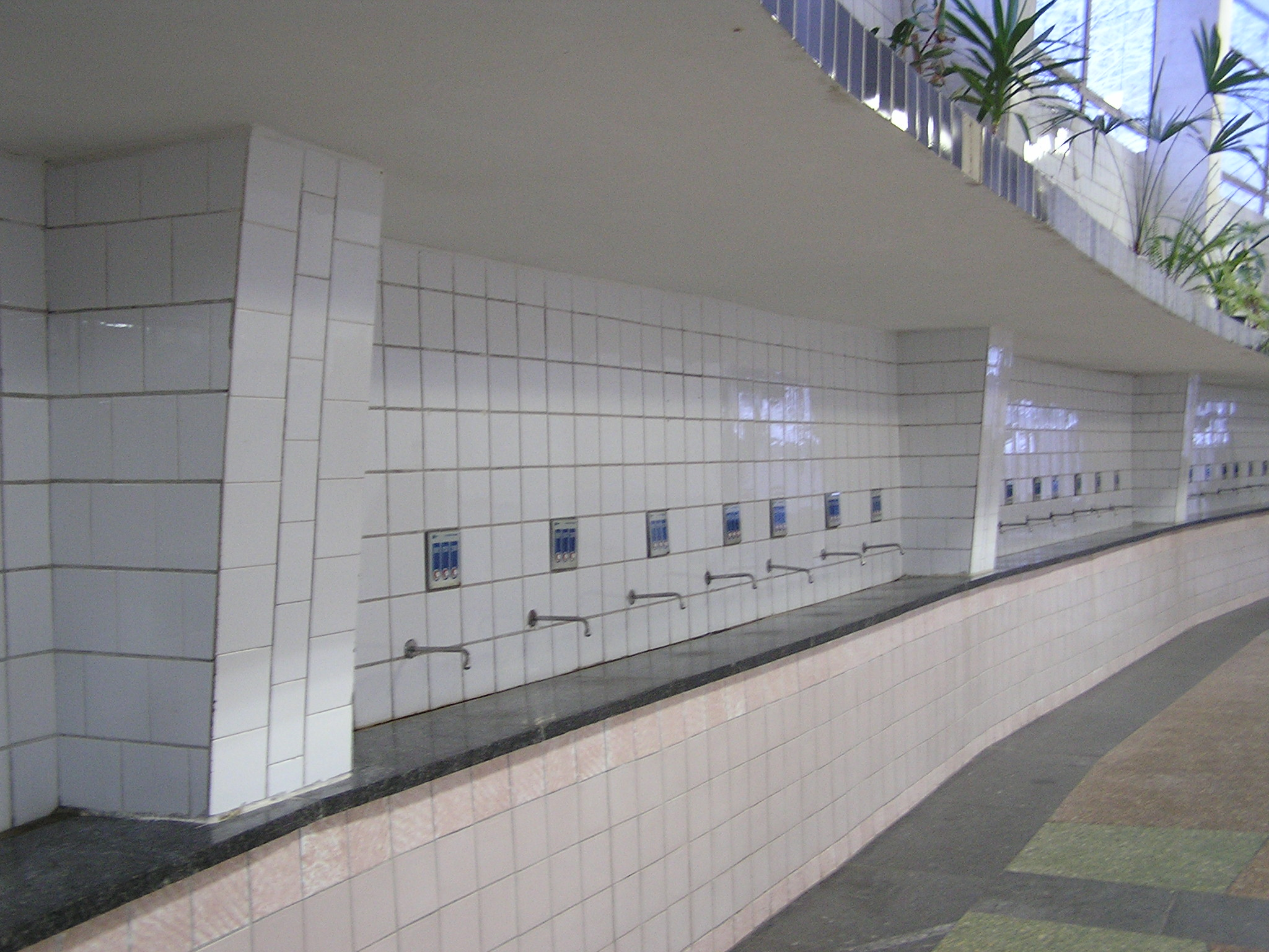 Truskavets